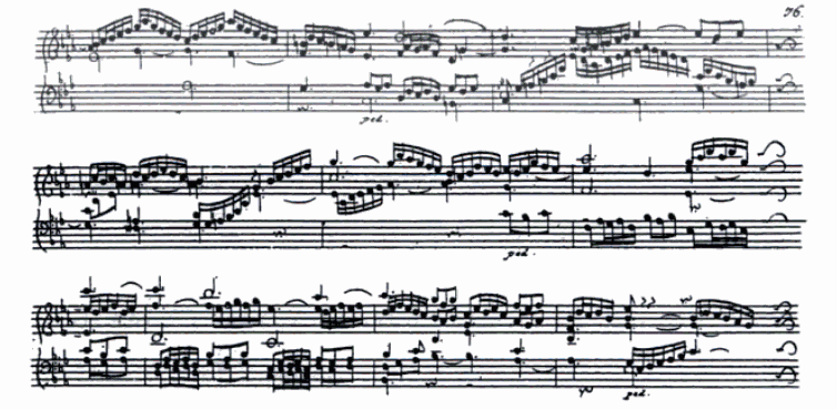 Original printing of part of the third section of the fugue BWV 552 from Clavier-Übung III